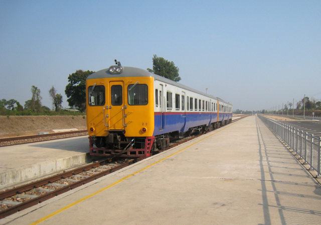 Thailand - Laos Train from Nong Khai